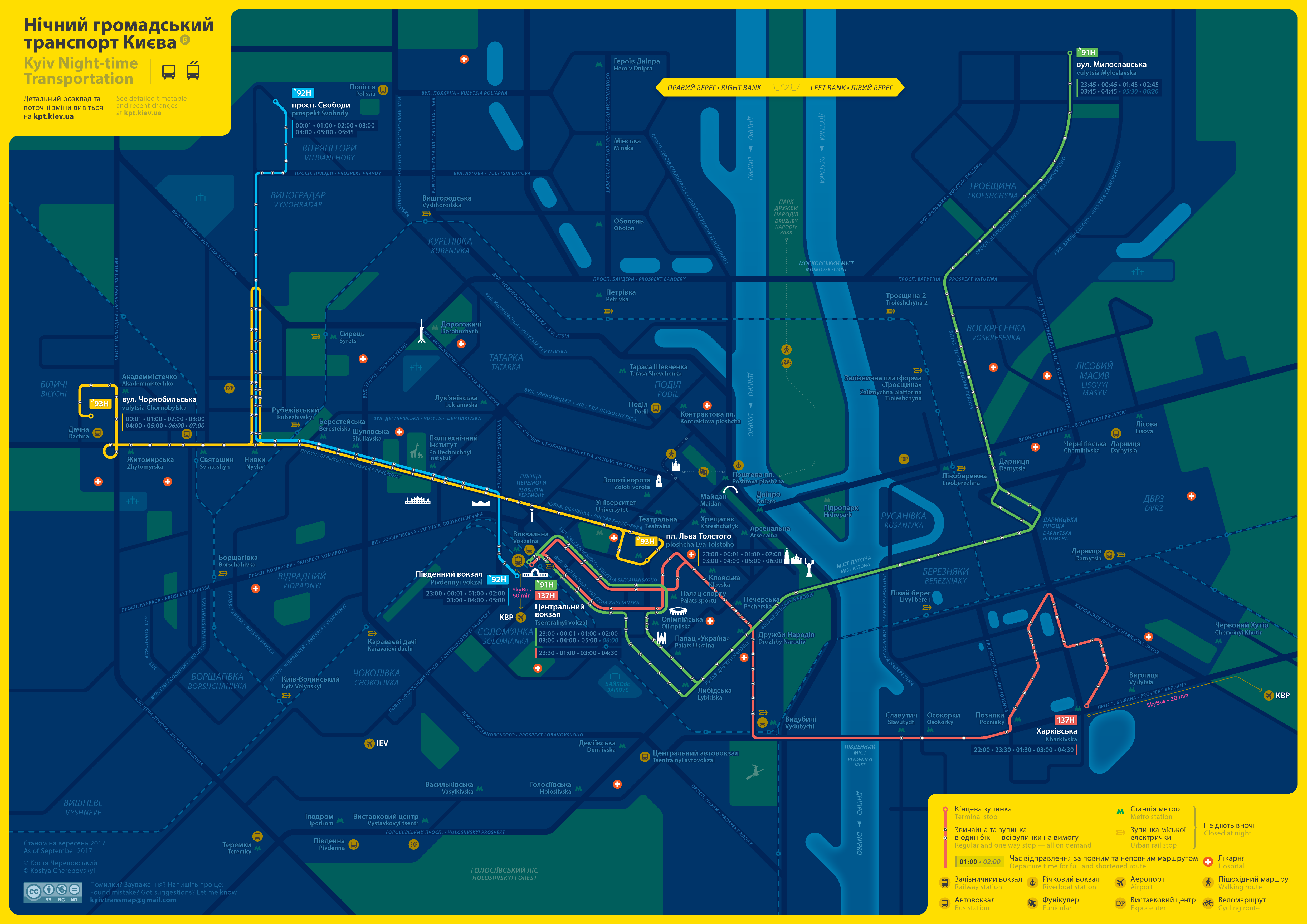 Unofficial transit map of Kyiv featuring night routes